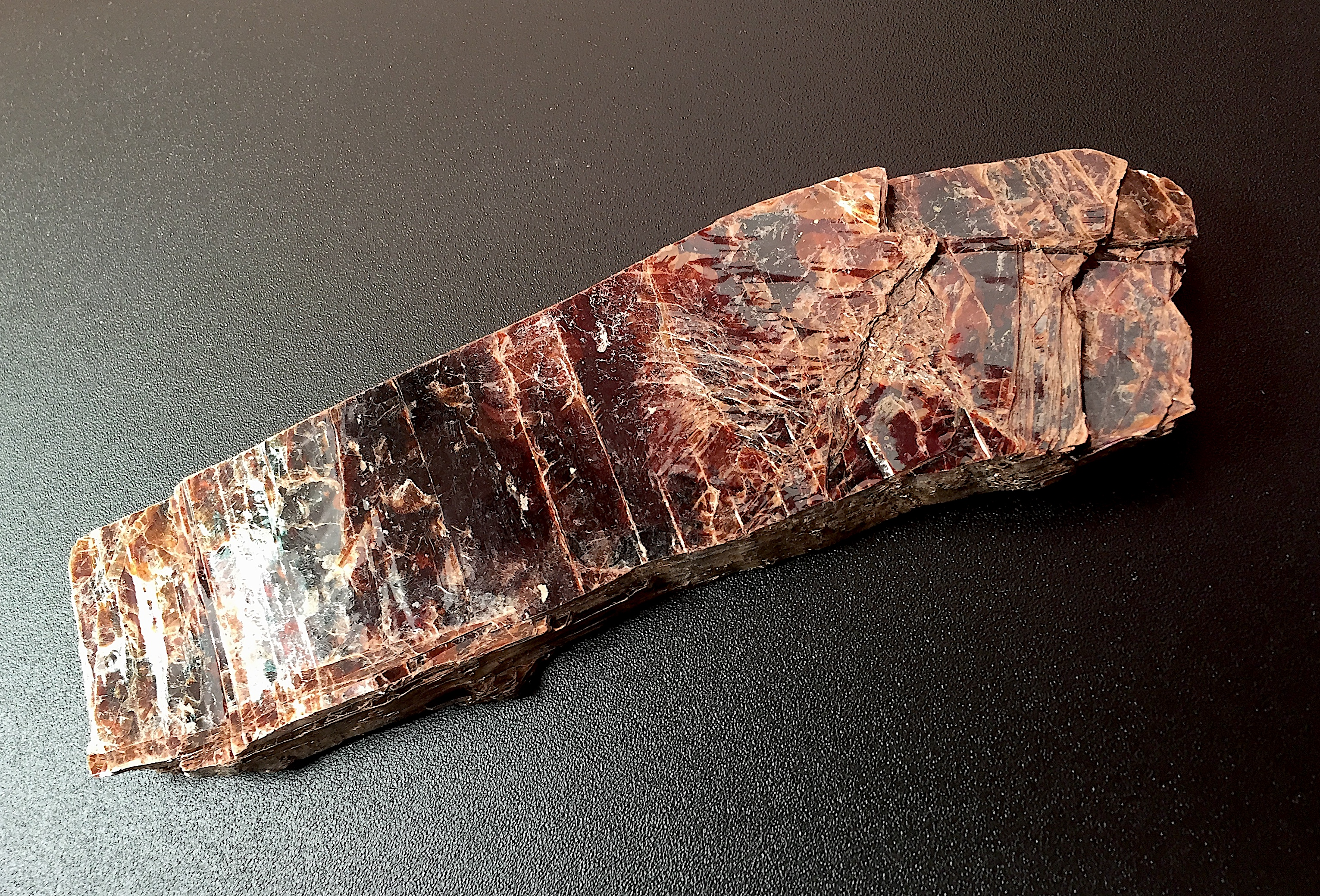 Mica (biotite?) specimen from the Rössingberge hills (Namibia)